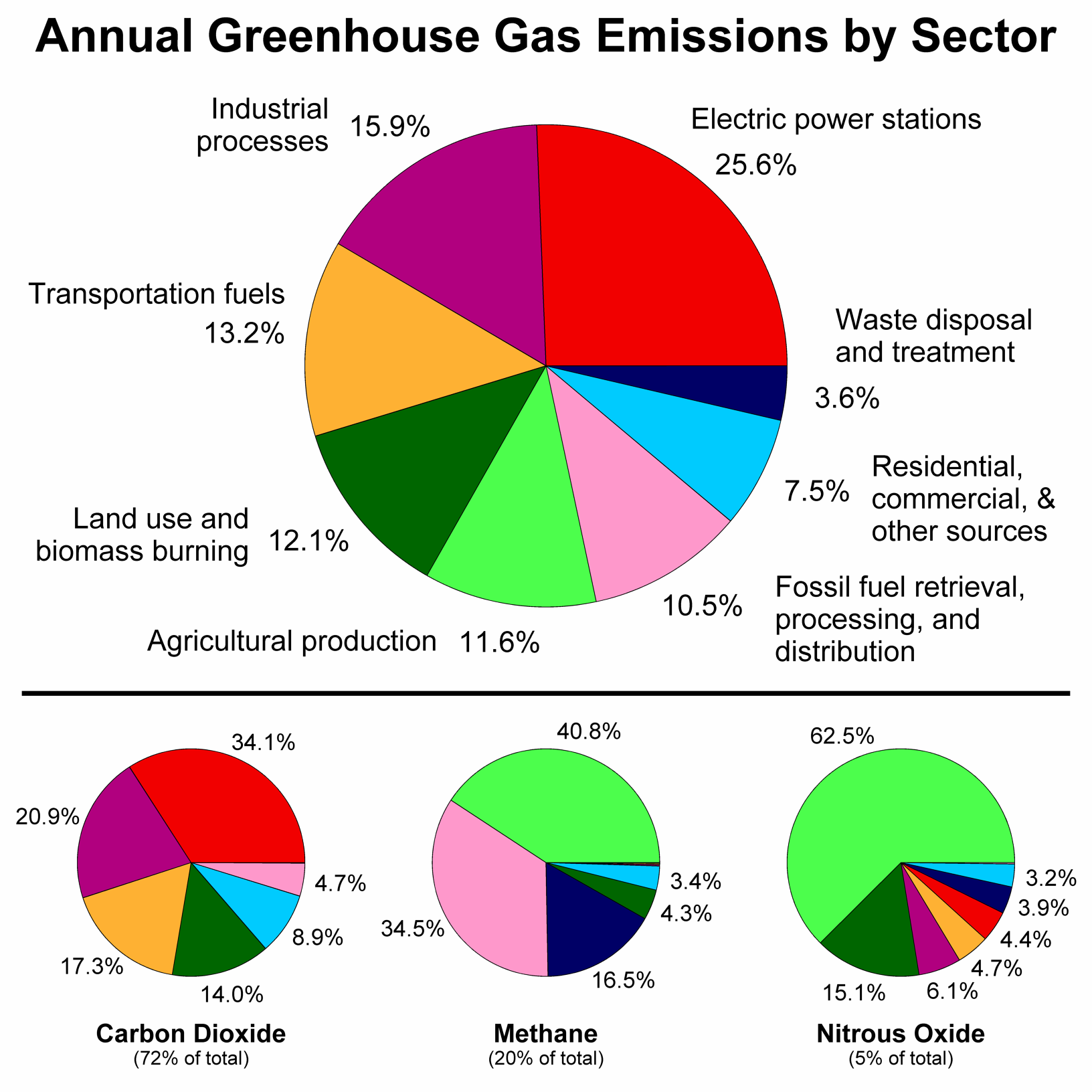 This figure shows the relative fraction of man-made greenhouse gases coming from each of eight categories of sources, as estimated by the Emission Database for Global Atmospheric Research version 4.2, fast track 2010 project [1]. These values are intended to provide a snapshot of global annual greenhouse gas emissions in the year 2000. The top panel shows the sum over all anthropogenic greenhouse gases, weighted by their global warming potential over the next 100 years. This consists of 72% carbon dioxide, 20% methane, 5% nitrous oxide and 3% all other gases. Lower panels show the comparable information for each of these three primary greenhouse gases, with the same coloring of sectors as used in the top chart. Segments with less than 1% fraction are not labeled.